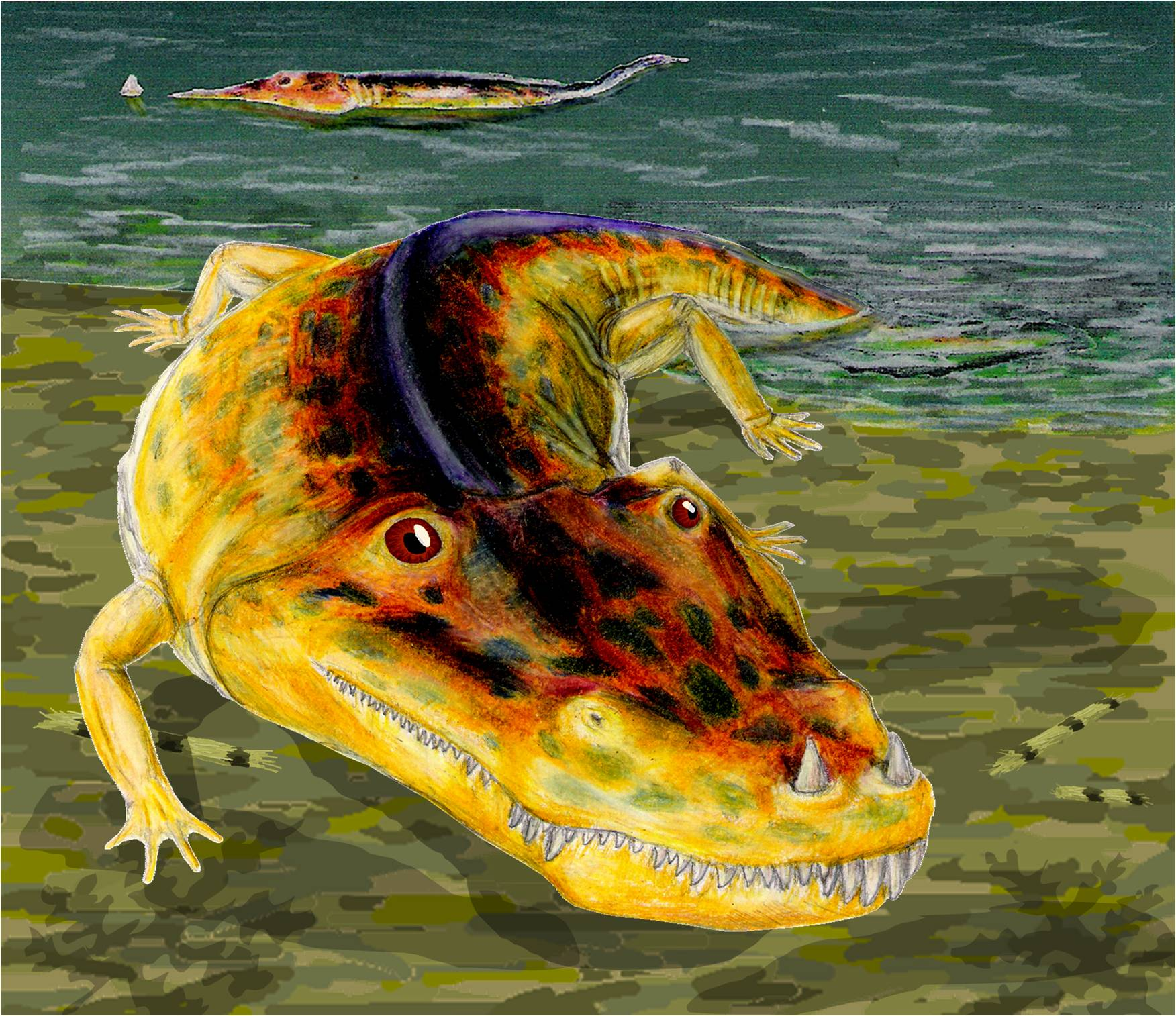 Life restoration of Nigerpeton ricqlesi